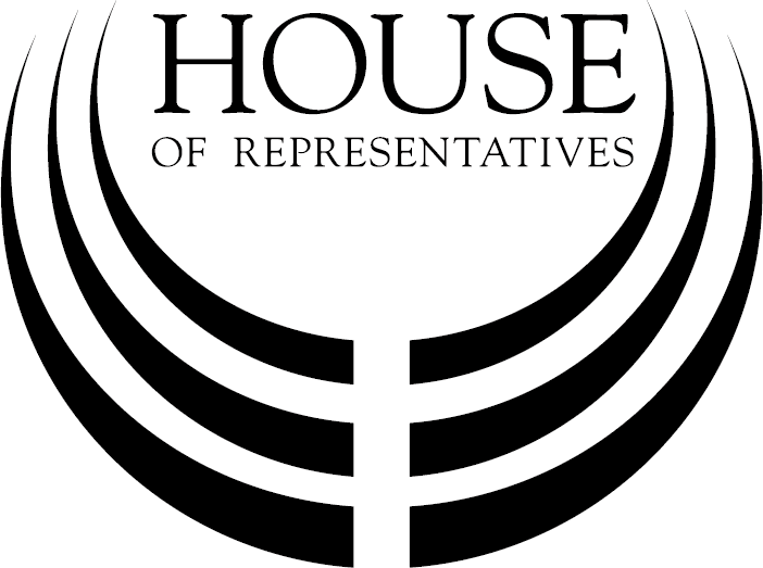 Logo of the Australian House of Representatives